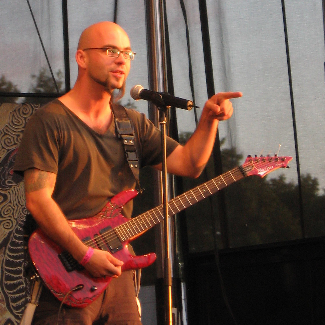 Fuchs, member of the band "Die Apokalyptischen Reiter" at the Wacken Open Air Festival 2006. Short interaction with the audience during soundcheck. Photograph taken by myself (front row).